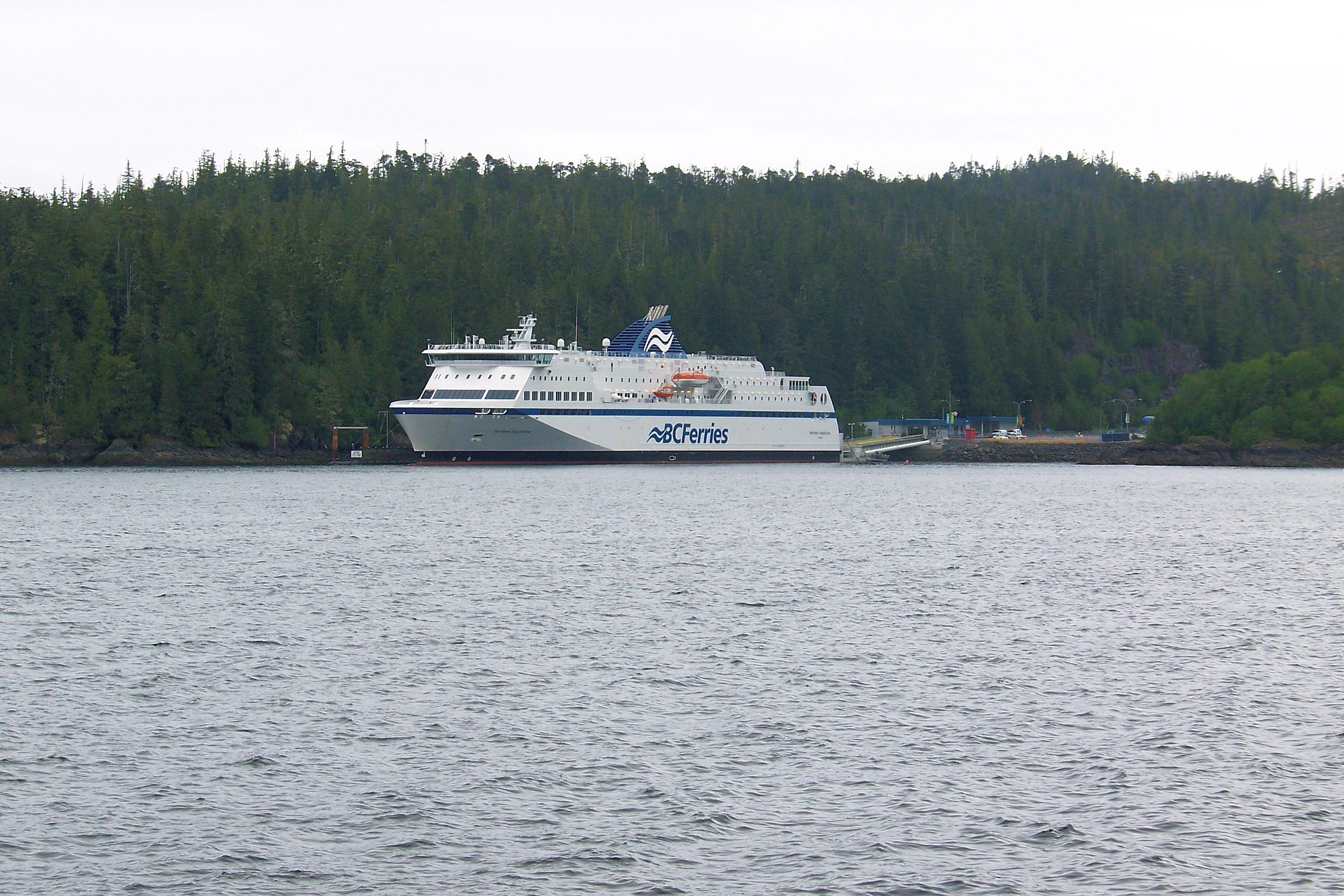 BC Ferry Northern Expedition at Bear Cove terminal, Port Hardy BC.